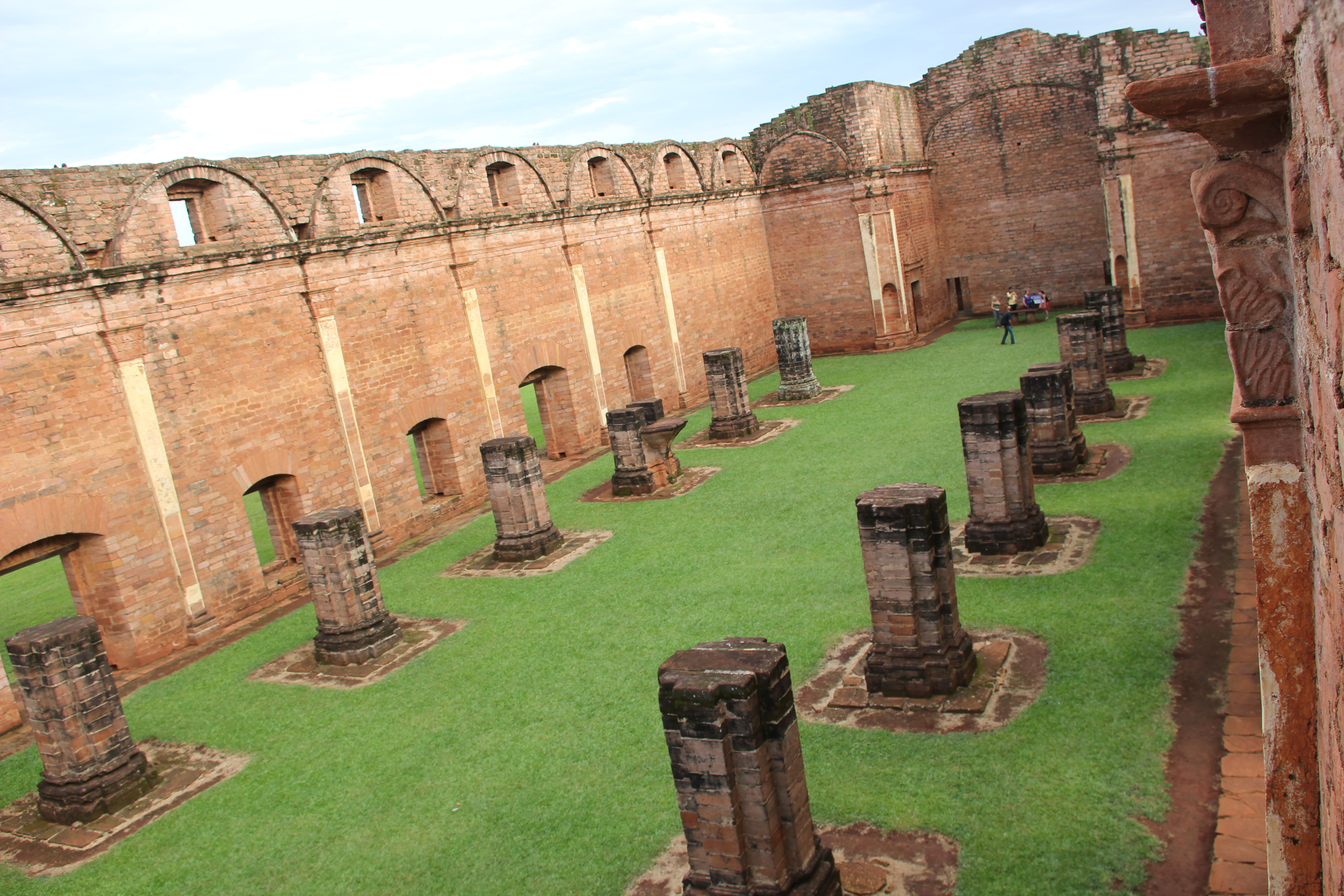 Jesus de Tavarangue - from above